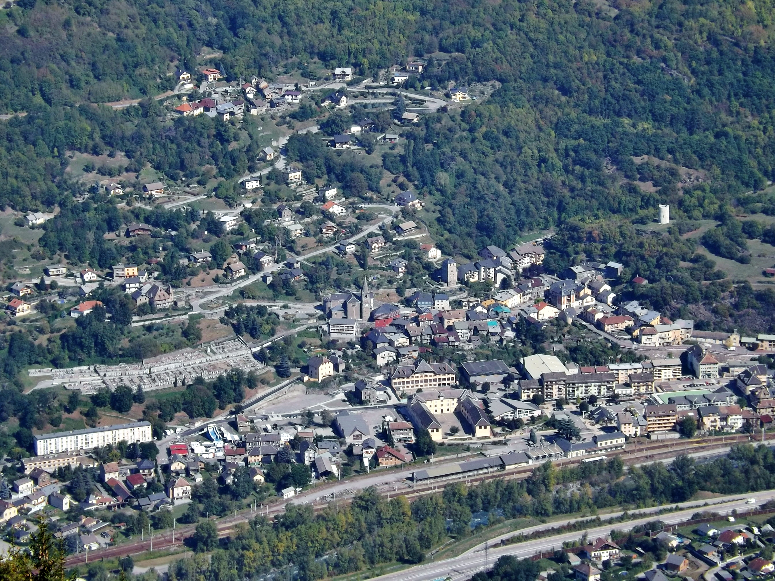 Aerian sight, from the col du Télégraphe pass, of Saint-Michel-de-Maurienne, in the Maurienne valley of Savoie, France.